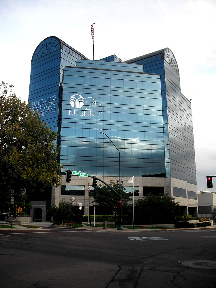 NuSkin Building on Center Street in downtown Provo, Utah